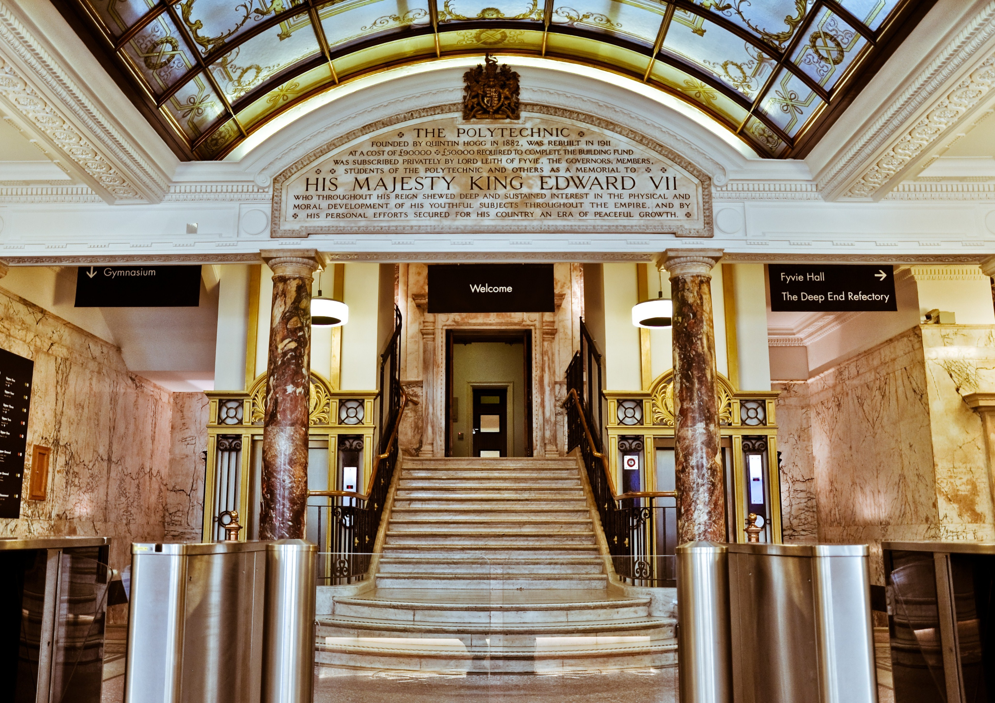 Foyer at the University of Westminster's Regent Street Campus